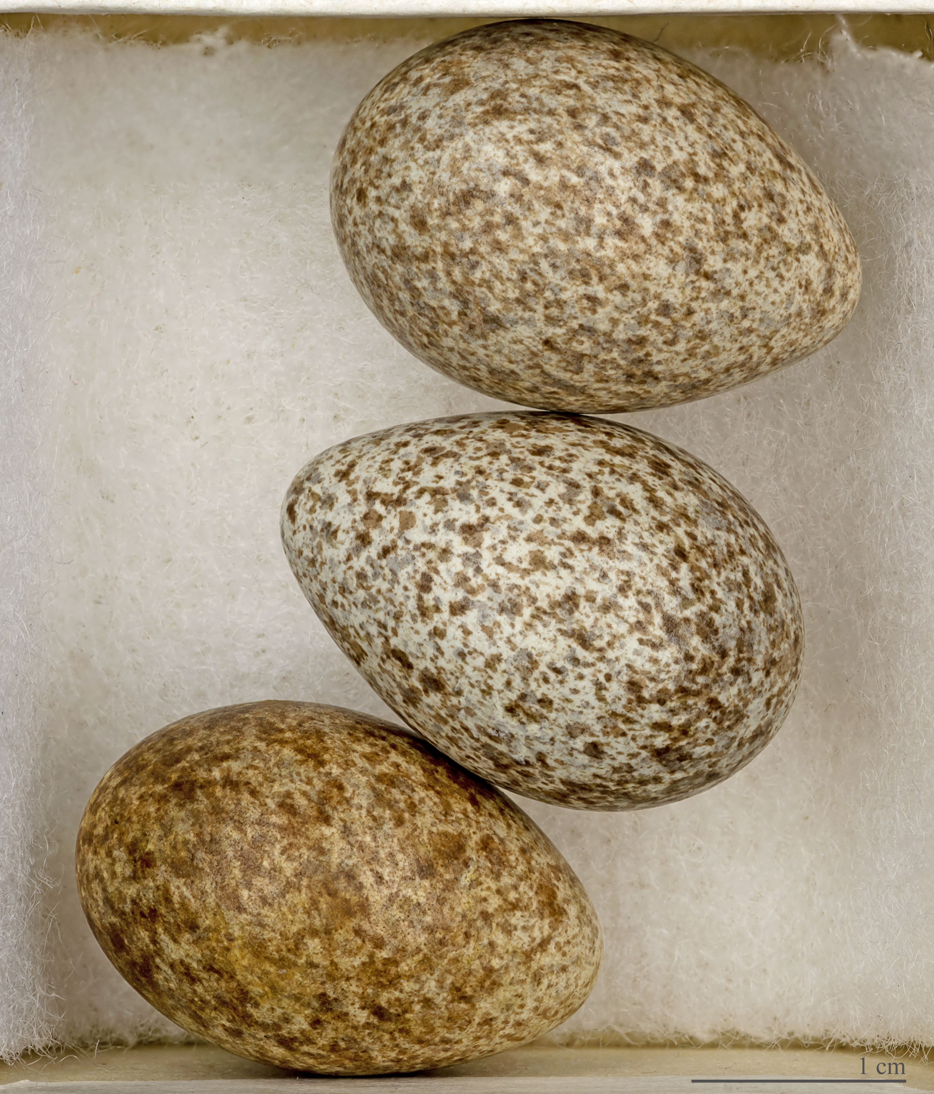 Egg of Eurasian Skylark. Collection of Jacques Perrin de Brichambaut.